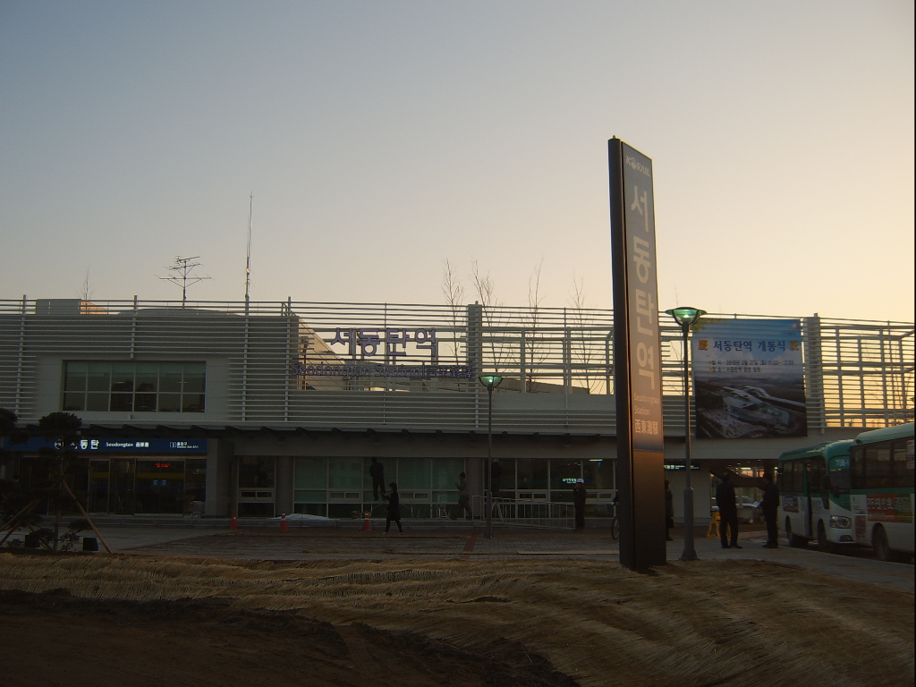 Korail Seodongtan station